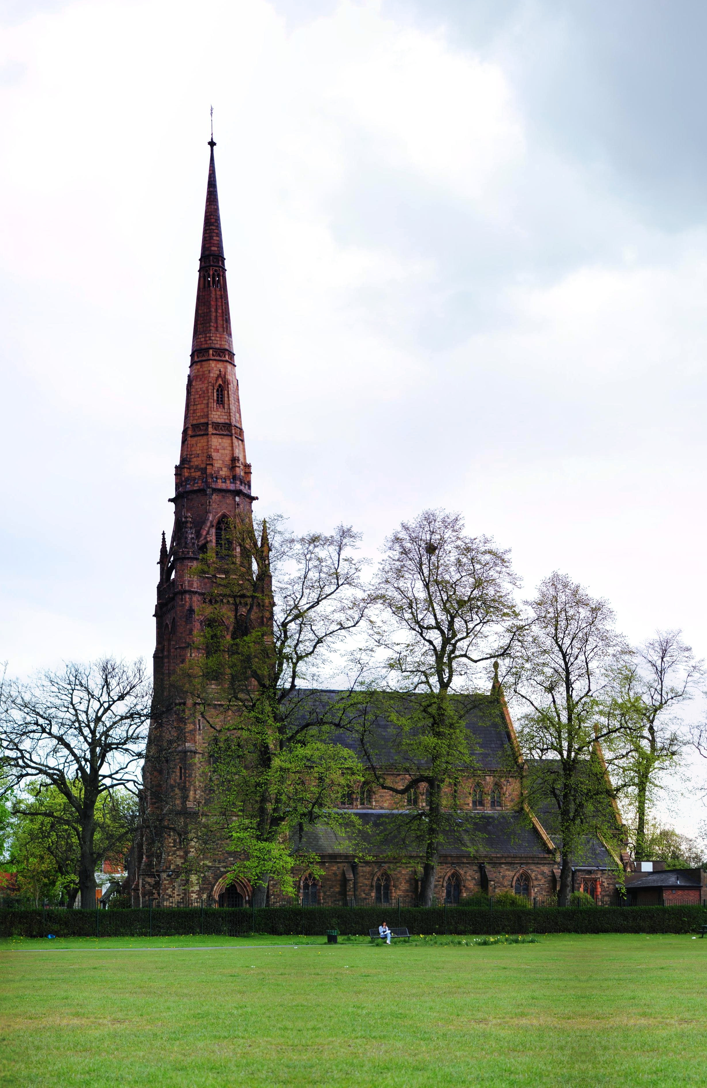 Platt Fields Park, Rusholme, Manchester, with Holy Trinity parish church behind a row of trees. The image is a panorama of about 12 photos, taken at 18mm, stitched with Hugin.